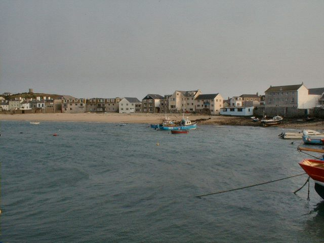 Hugh Town The beach and harbour from the pier.